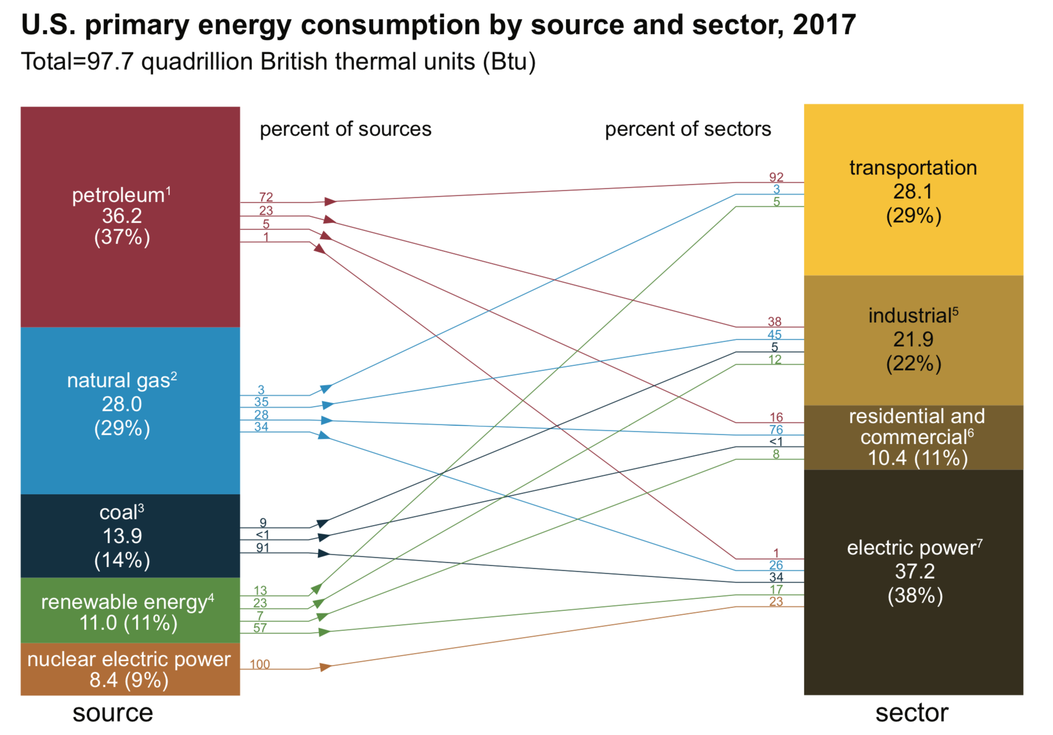 An image that shows U.S. primary energy consumption by source and sector in 2017